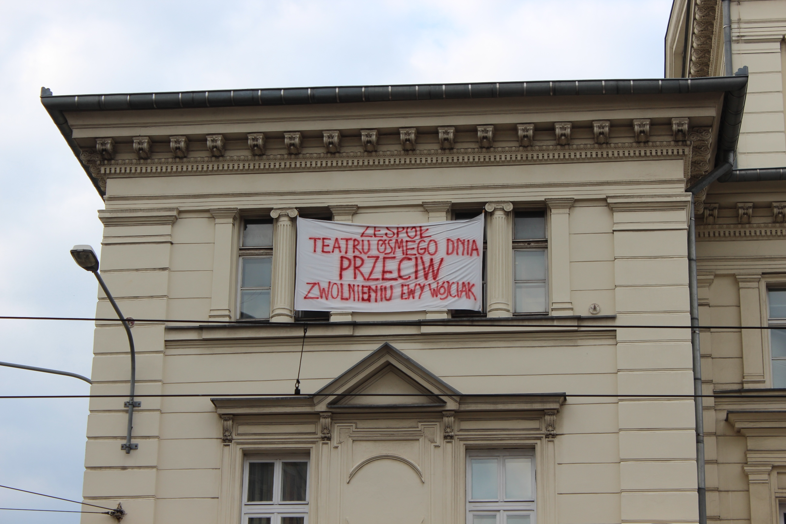 Theatre of the Eighth Day Team protest (Poznań)